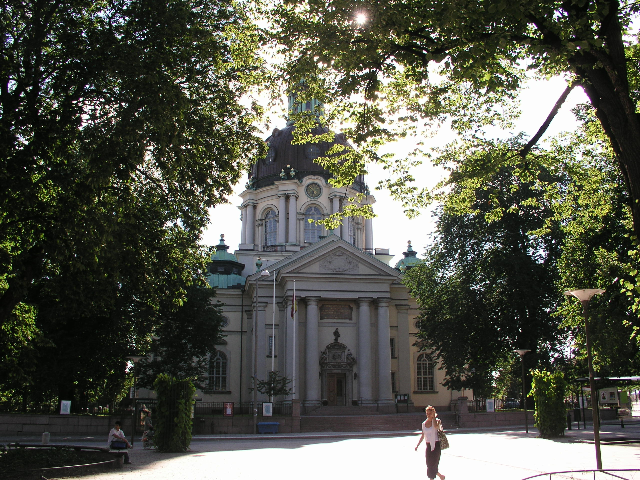 Gustaf Vasakyrkan. Main Entry side.